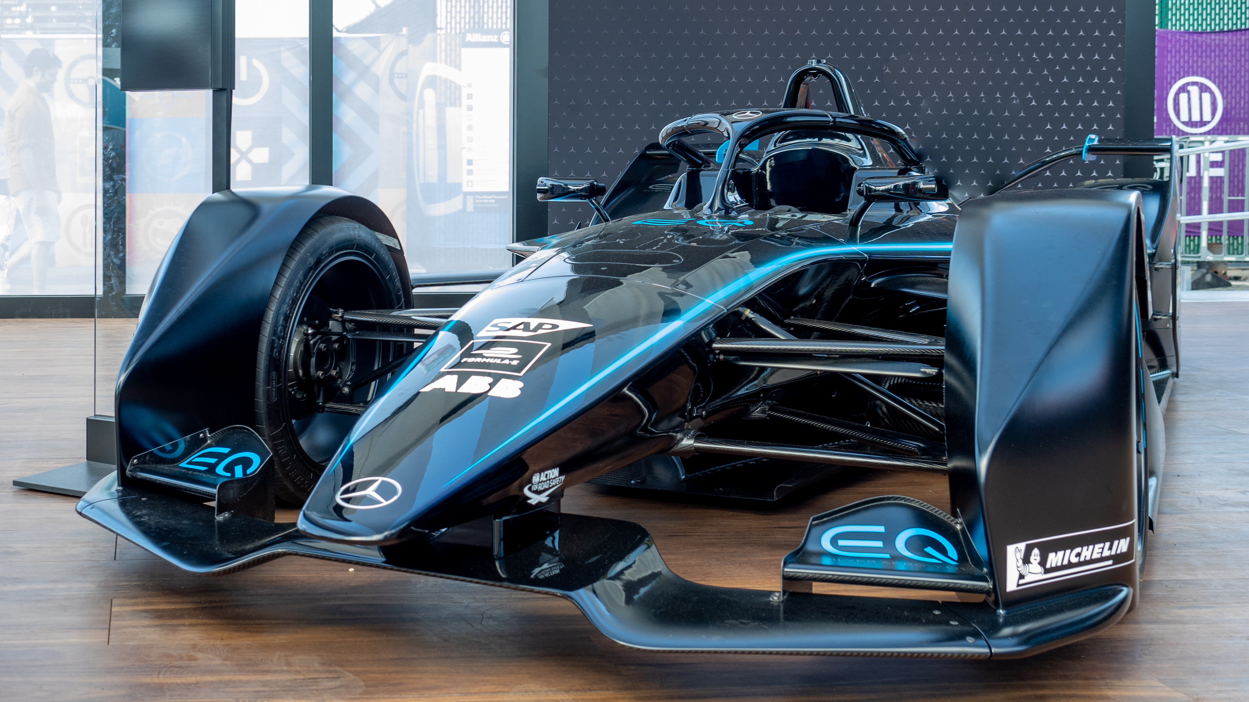 Redhook, Brooklyn, New York City